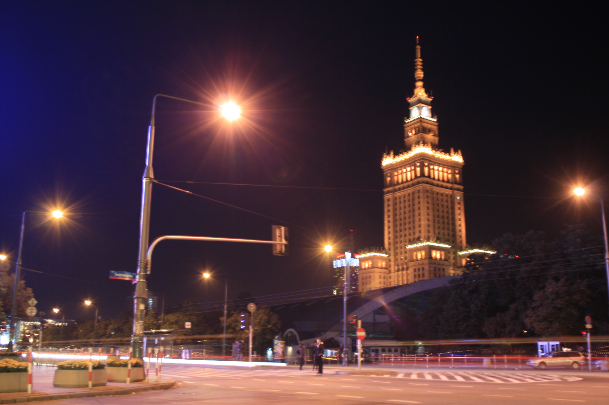 Warsaw's Culture Palace